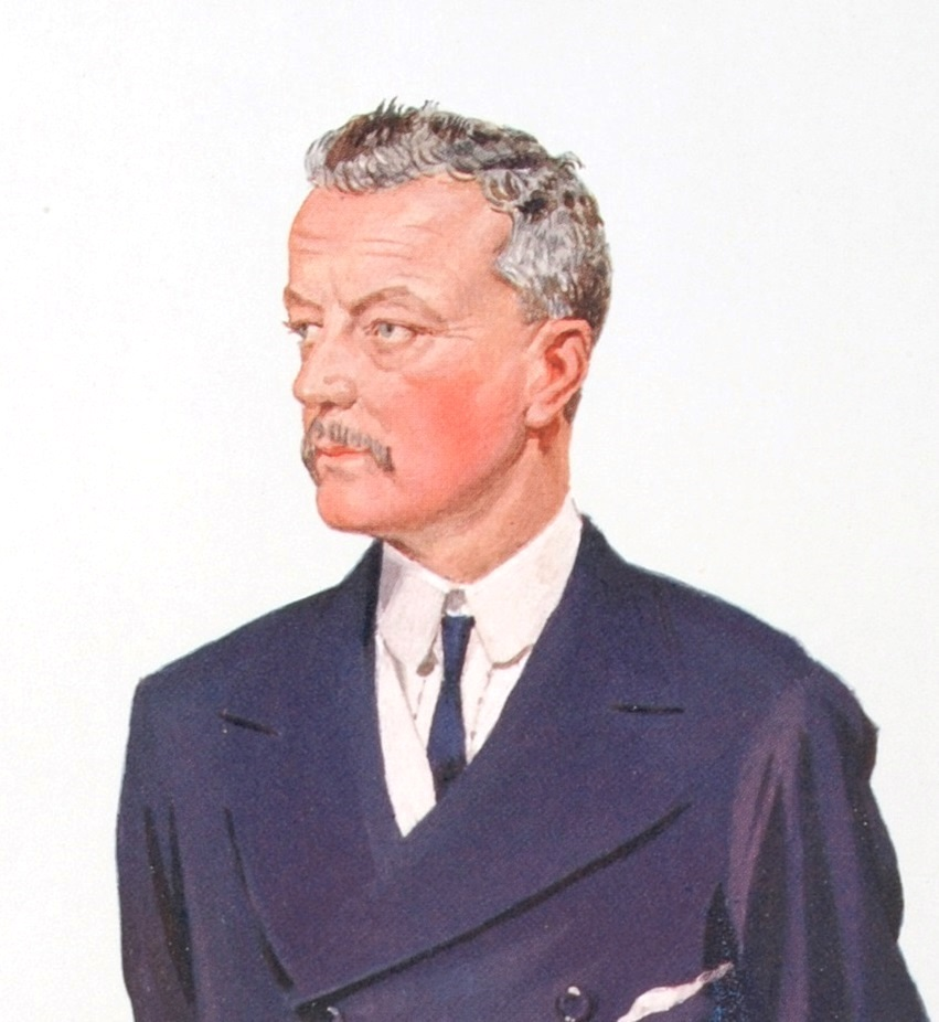 Men of the Day No.1135: Caricature of Abraham "Abe" Bailey (1864-1940), later Baronet. Caption reads: "Rhodes the Second"